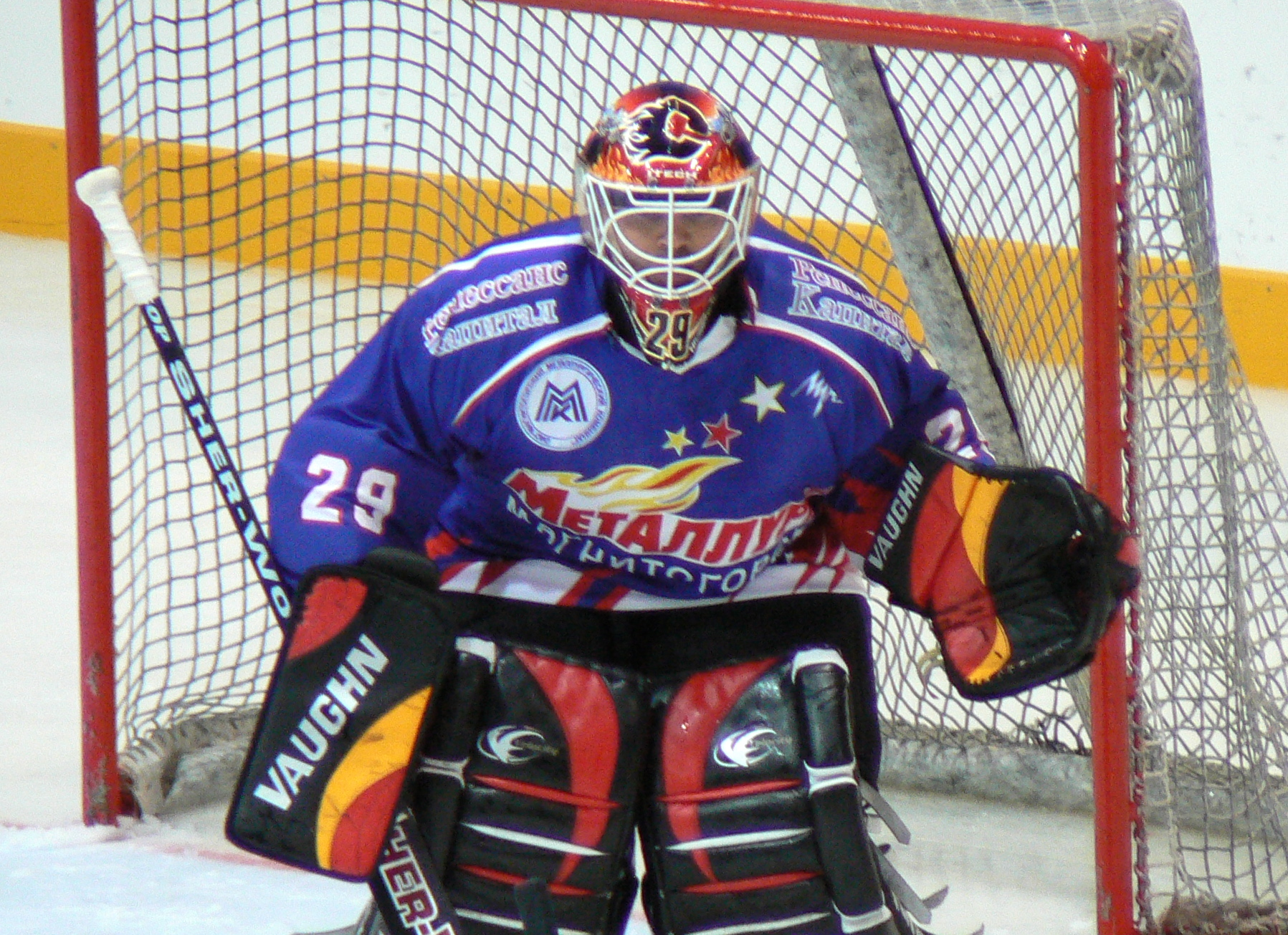 Ice hockey player Jamie McLennan guarding the net of Metallurg Magnitogorsk at the 2007 Tampere Cup